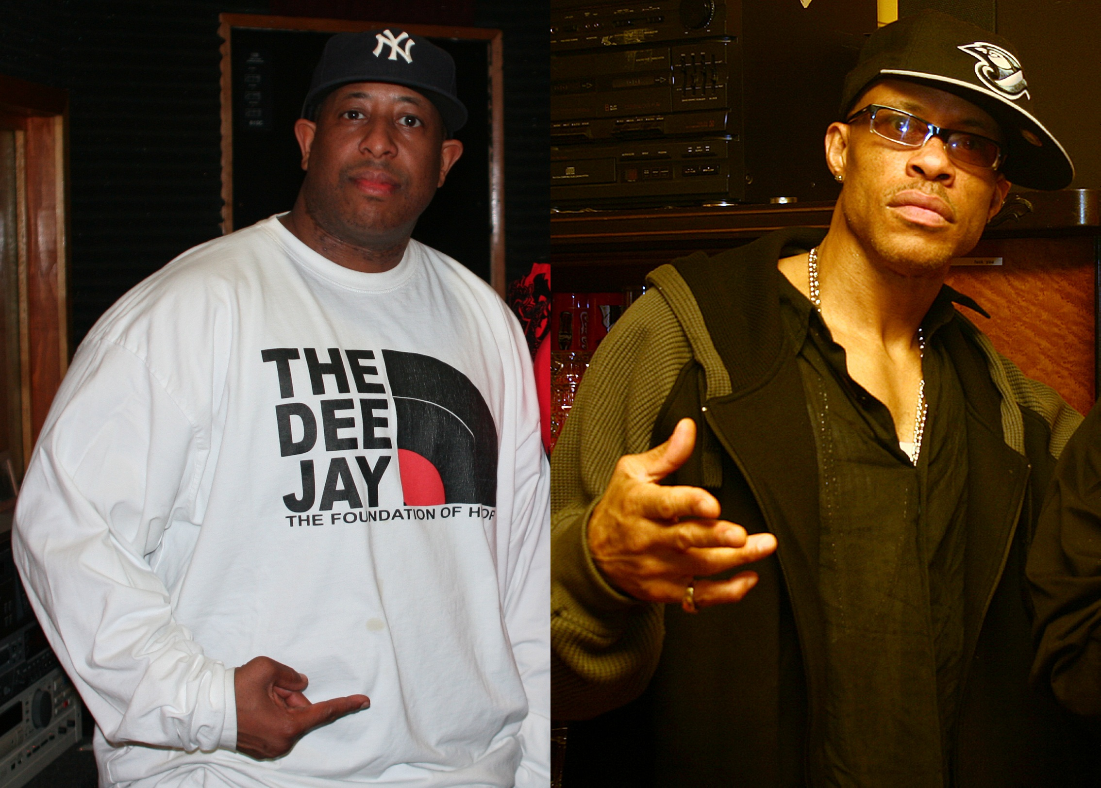 Composite image of Gang Starr.